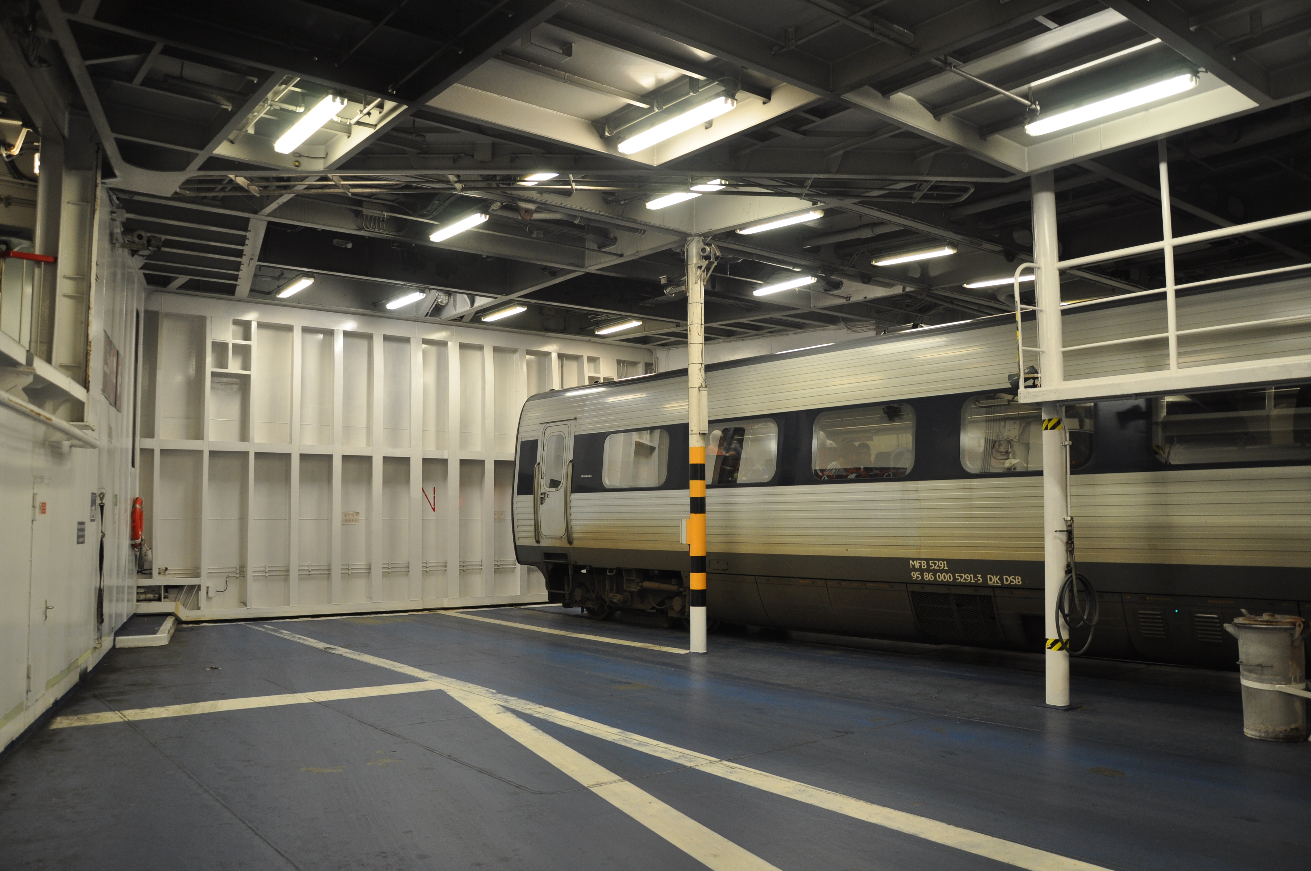 DSB MF in the Railway Ferry "Schleswig-Holstein"